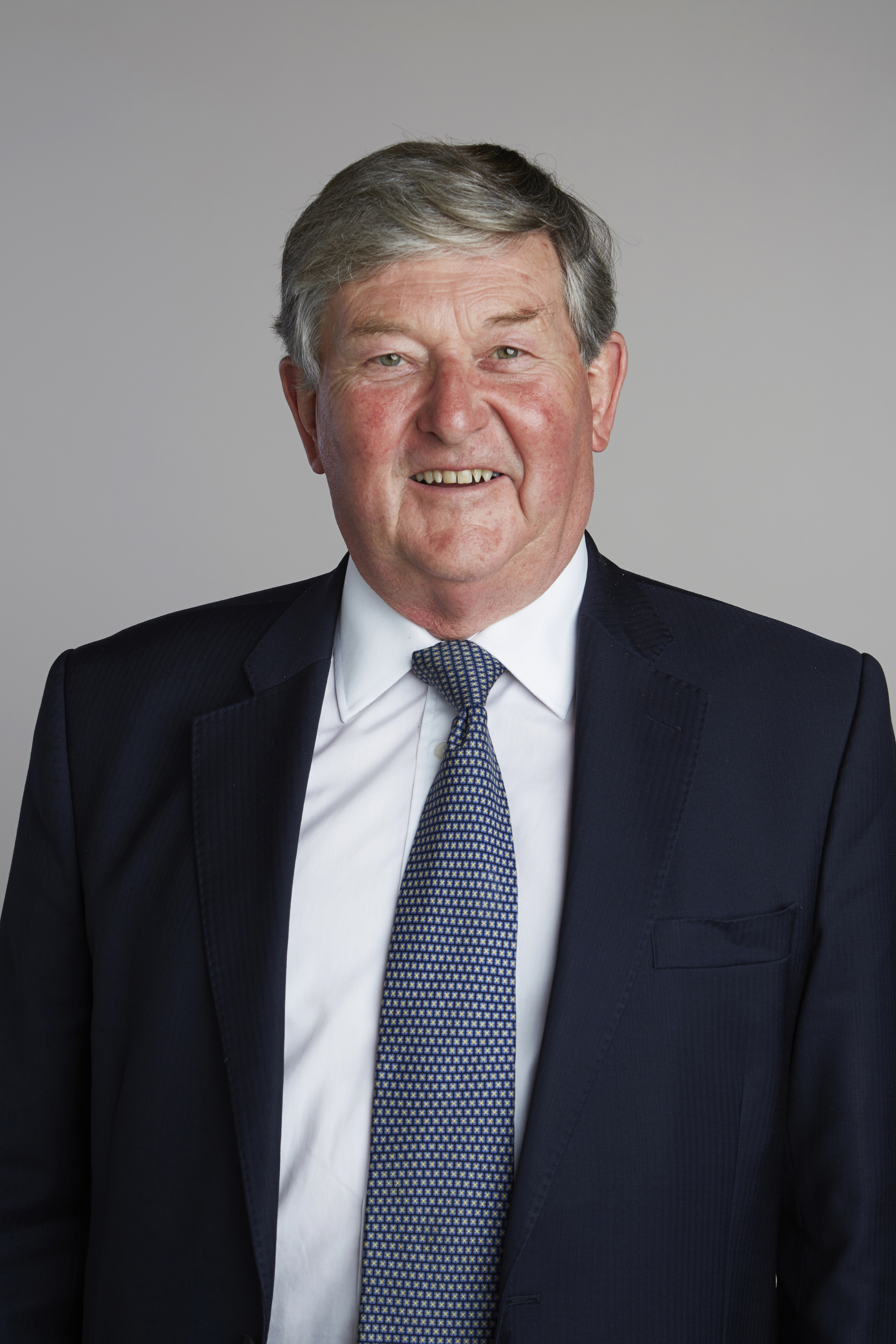 David Phillips received his PhD in 1964. After conducting research abroad, he lectured at the University of Southampton then moved to the Royal Institution, later becoming its Deputy Director. David joined Imperial College in 1989 as Professor of Physical Chemistry, serving as Head of the Department of Chemistry and Dean of the Faculties of Life Sciences and Physical Sciences before retiring in 2006. His research interests include the fundamentals and applications of photochemistry and photophysics, fluorescence-lifetime imaging microscopy (FLIM) and photodynamic therapy. He has been awarded the Royal Society of Chemistry (RSC) Nyholm Prize for Education, and the Royal Society Michael Faraday Award for his contributions to the public understanding of science. David has received an OBE for services to science education, and a CBE for services to chemistry. He is former President of the RSC (2010–2012) and has chaired the UK Chemicals Stakeholder Forum since 2013. He is an Honorary Fellow of the City and Guilds Institute, the Royal Institution and the British Science Society, and holds honorary degrees from several universities. Attribution: The Royal Society